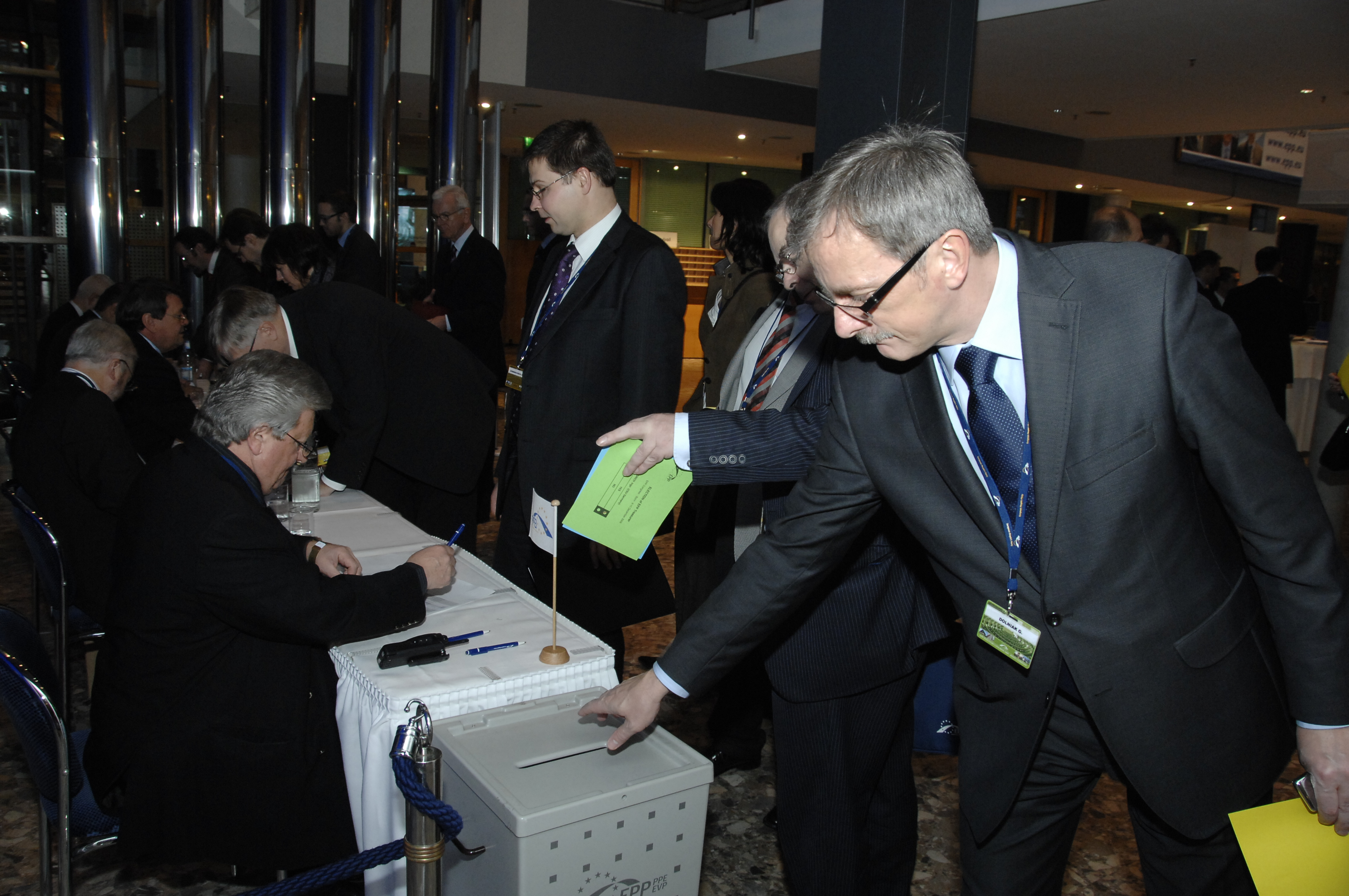 EPP Congress Bonn